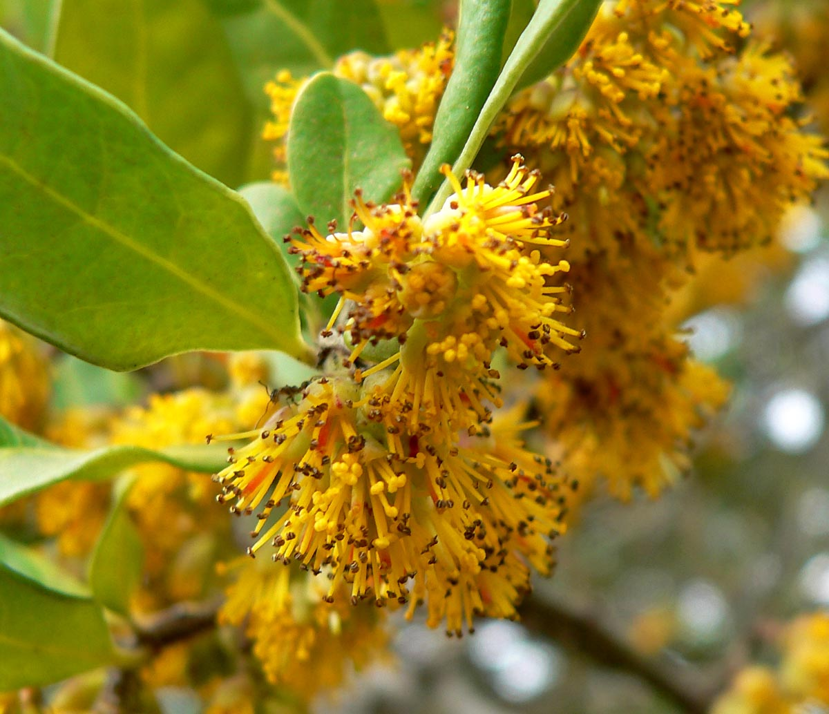 Photo of Azara petiolaris at the University of California Botanical Garden